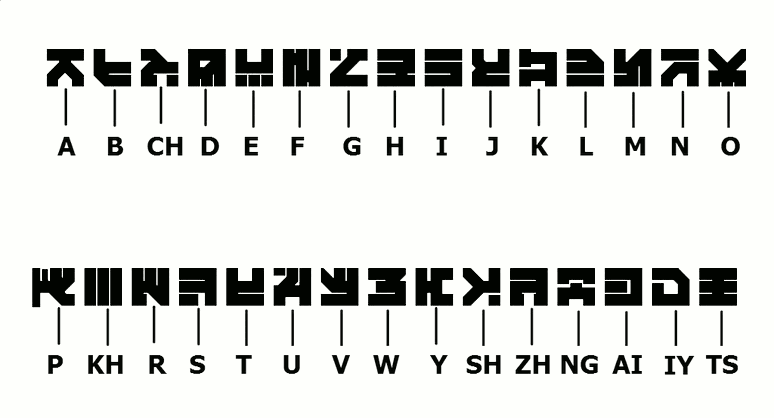 The Helghast alphabet as seen in Killzone 2